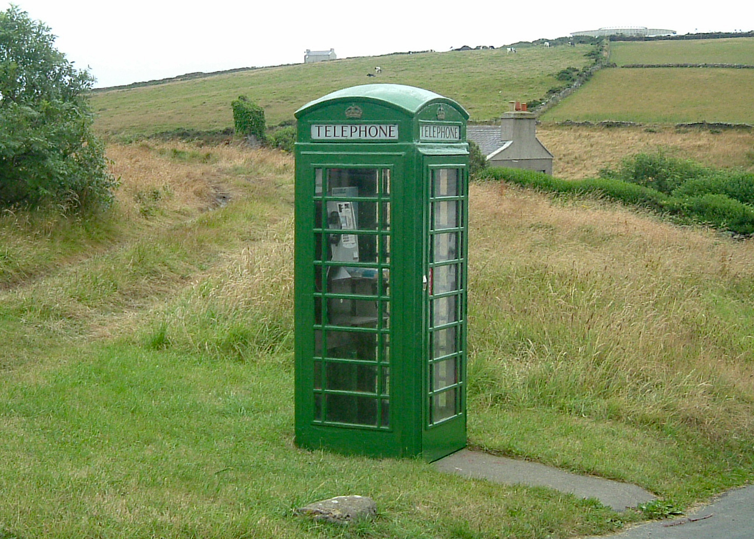 A traditional red British phone box at Cregneash in the Isle of Man, repainted green for the (Irish) film Waking Ned Devine. Taken by me.